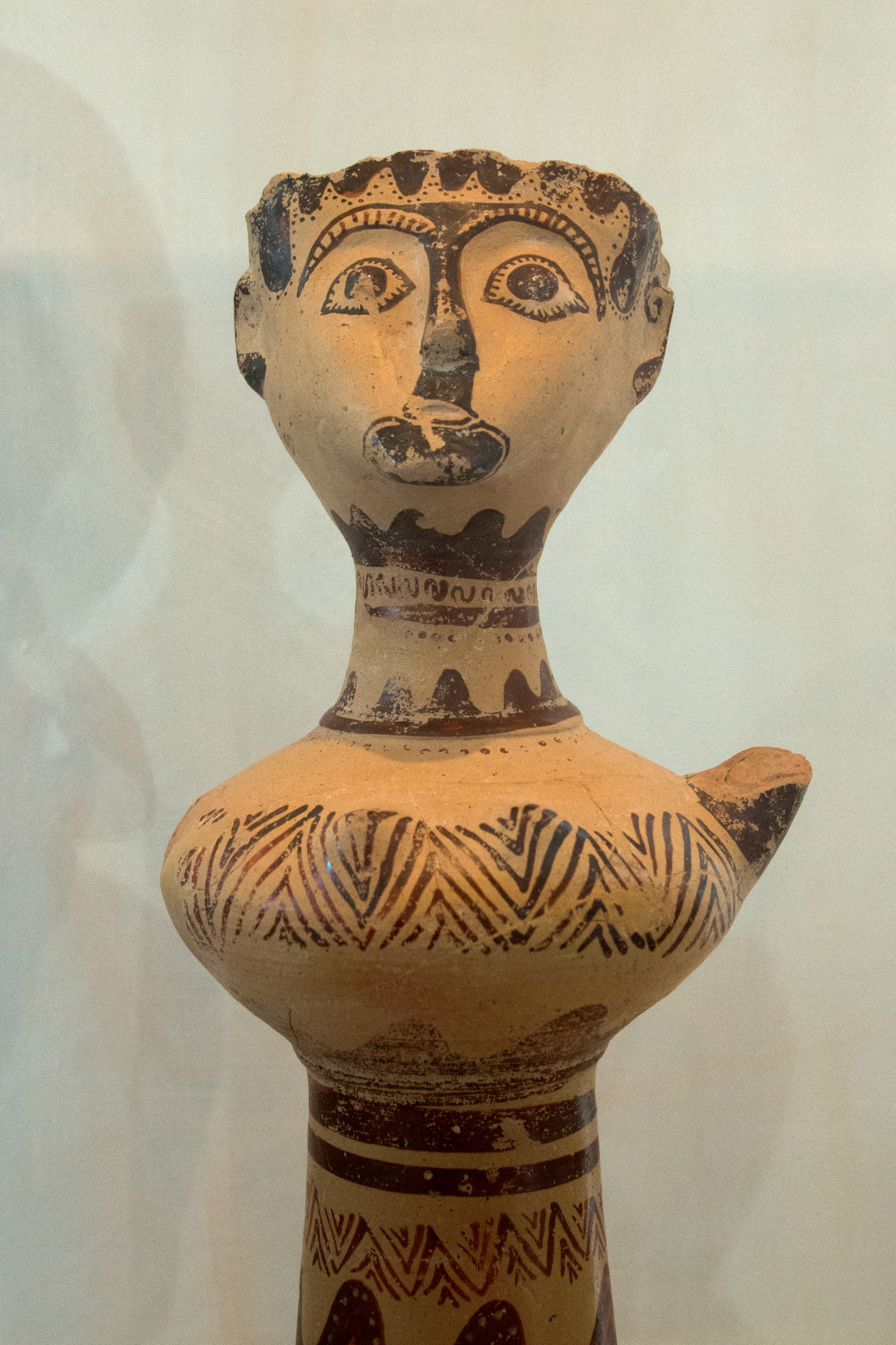 The Lady of Phylakopi. Wheel-made female figurine of a goddess or priestess from West Shrine in Phylakopi. Height 45 cm. Late Helladic III A period, Phylakopi III, probably 14th century BC. Archaeological Museum of Milos, Cat. no. B 655. Discovered by Colin Renfrew, Excavations 1974-77.